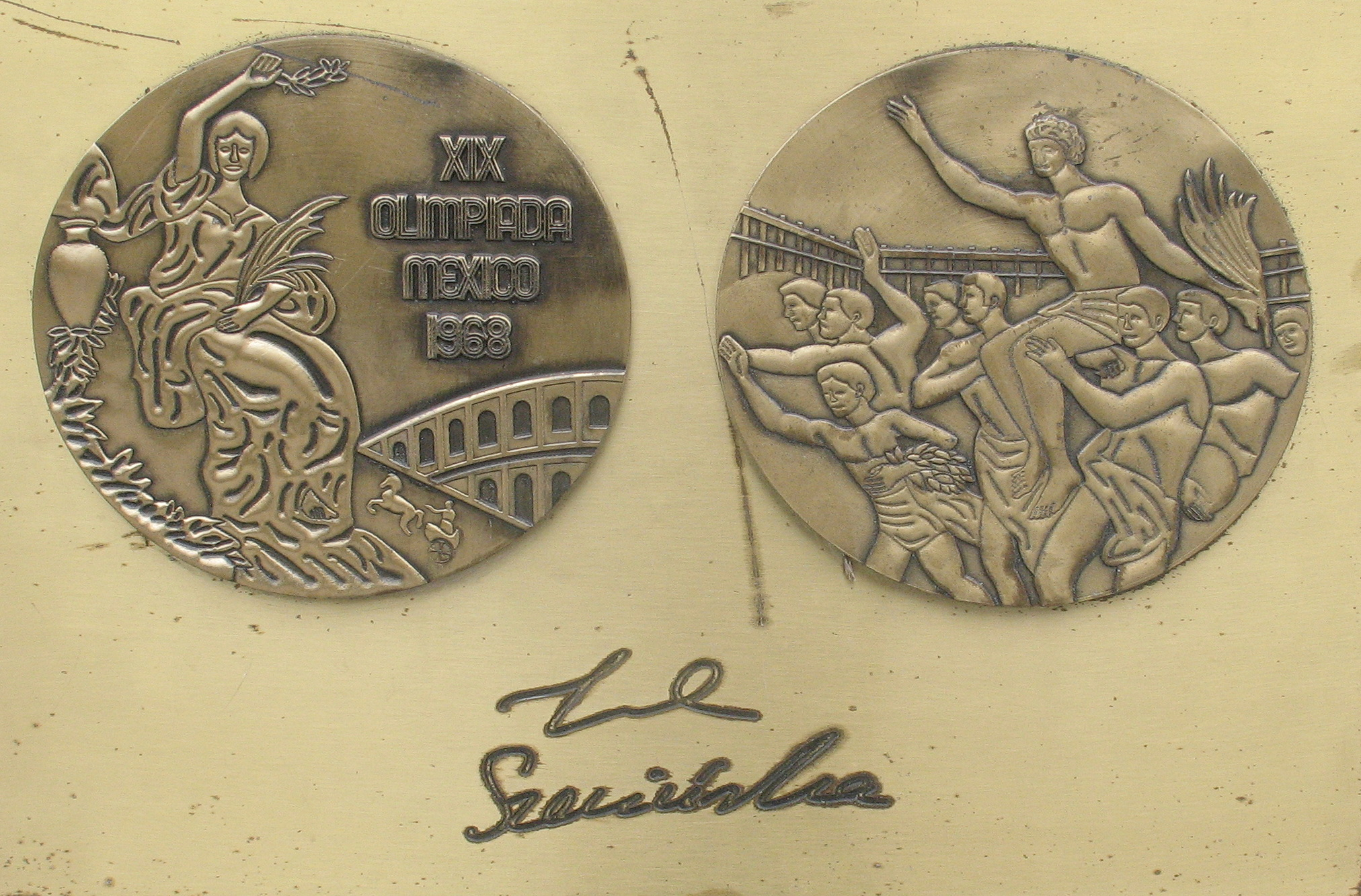 Irena Szewinska medal & autograph in Avenue of Sport Stars Dziwnów